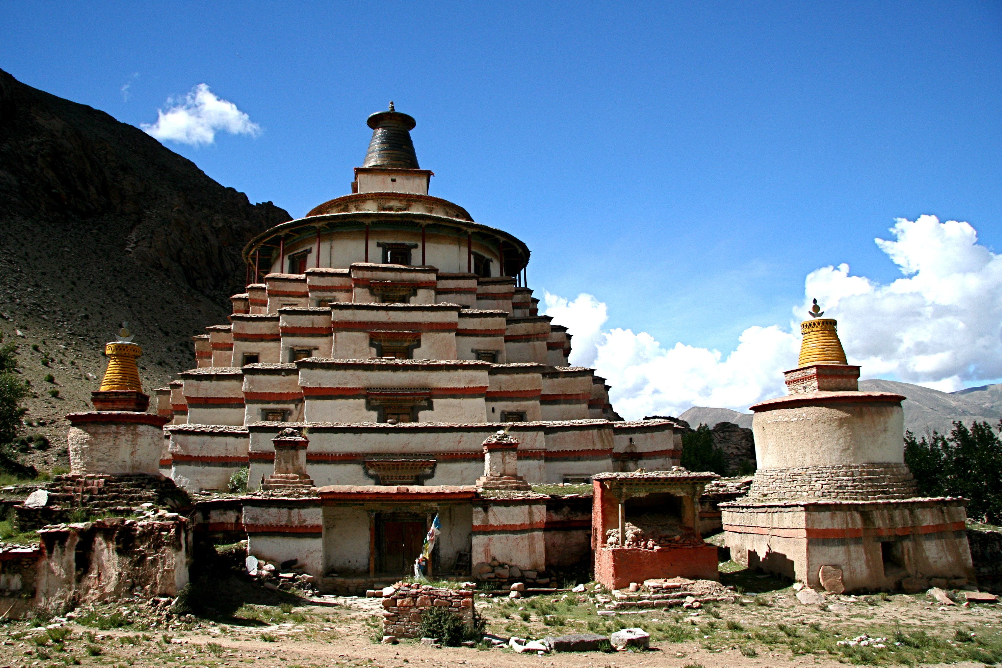 Stupa built by Dolpopa Sherab Gyaltsen, completed 1333 (C.E.).